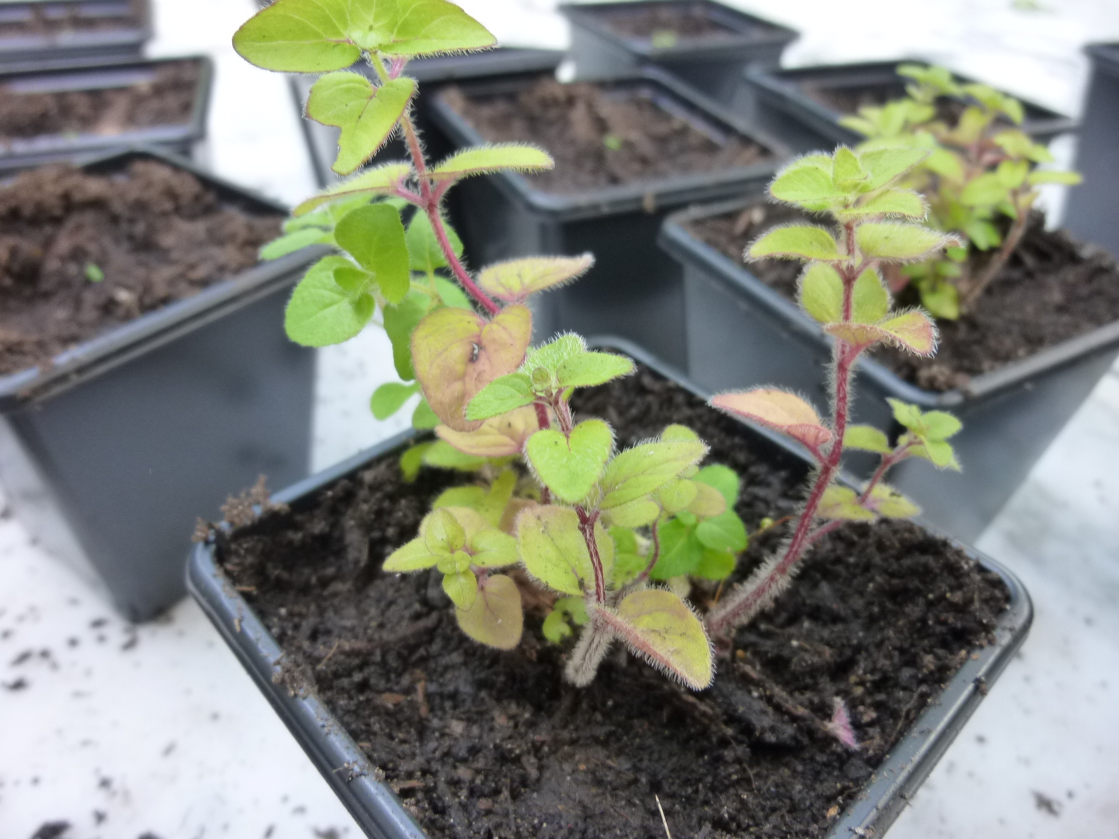 From plug